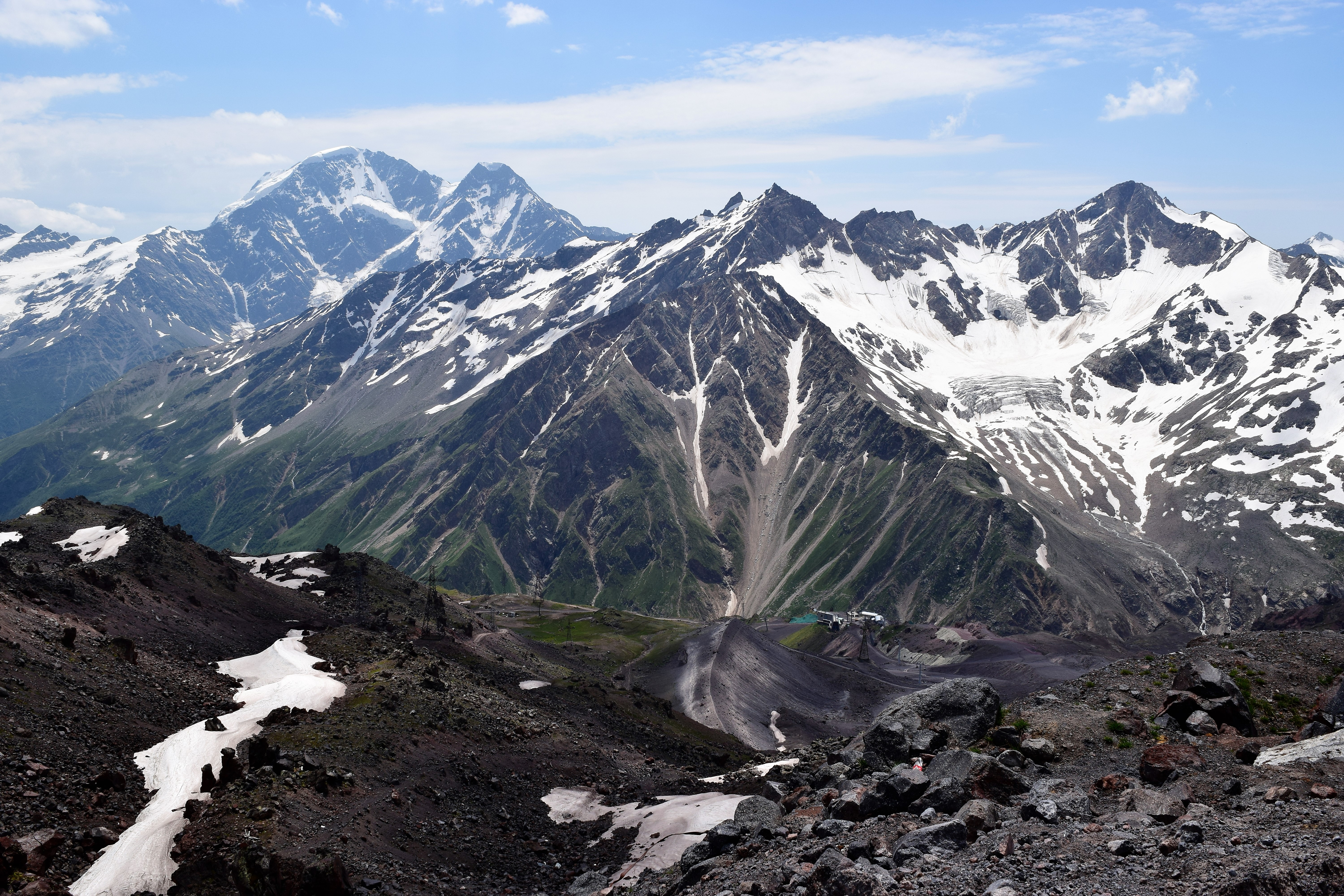 Mount Elbrus, view on the mountains from the station Mir (3500 m)